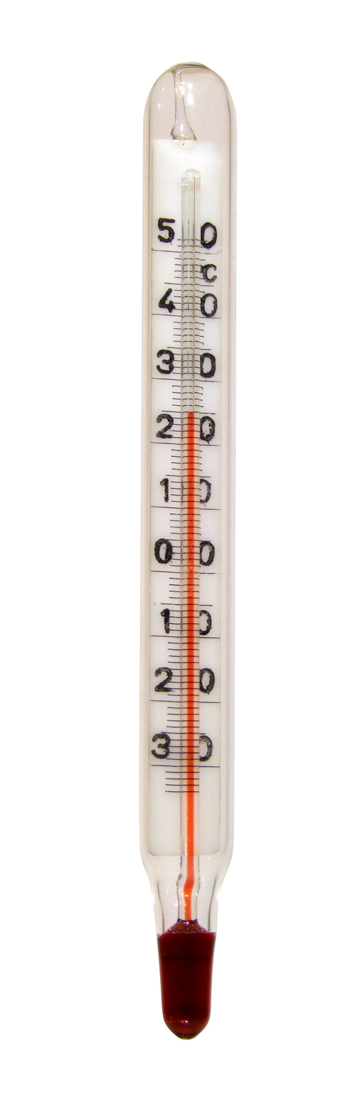 Alcohol room thermometer